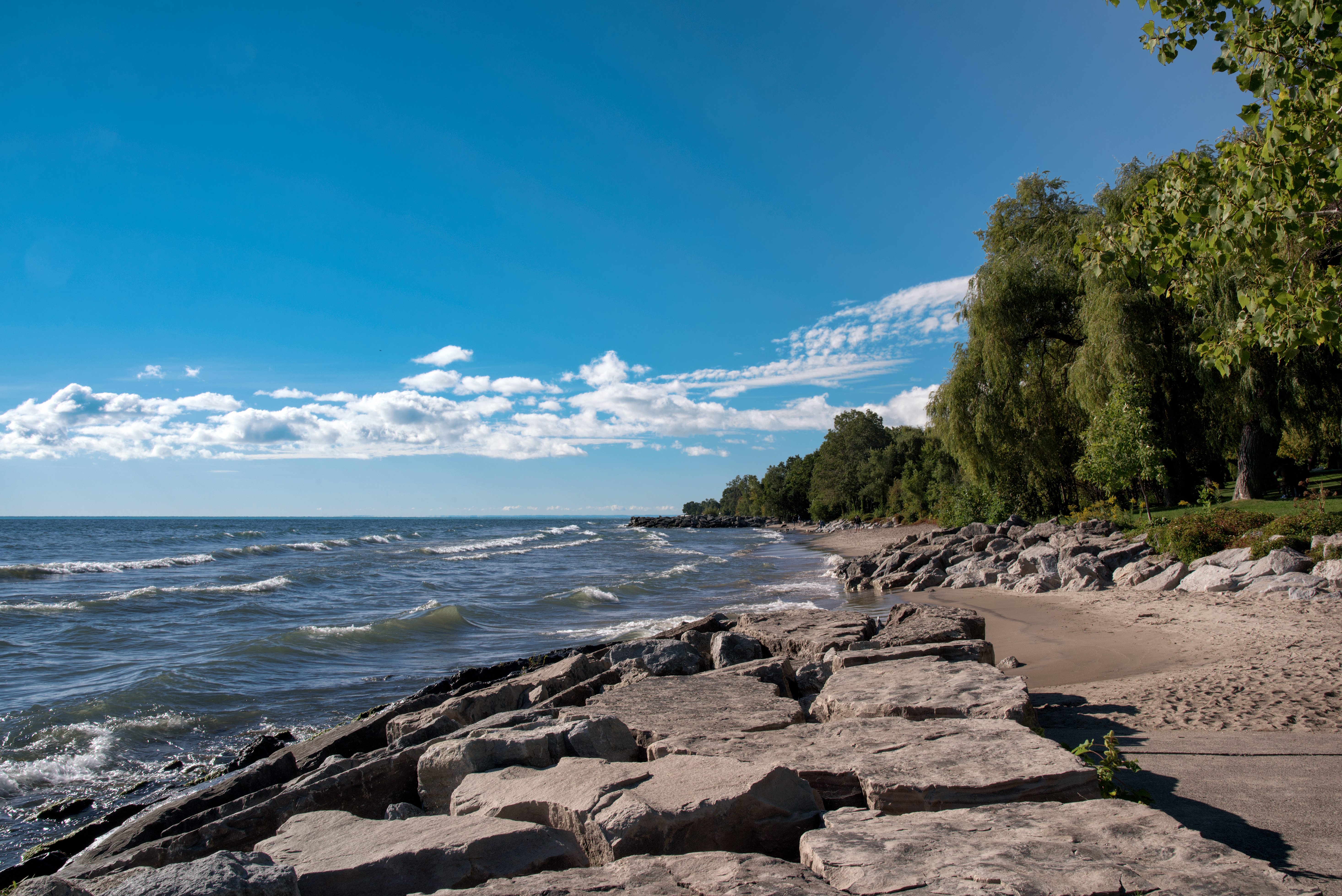 Taken in Jack Darling park on the shore of Lake Ontario. I used a Nikon CP 15 circular polarizer.